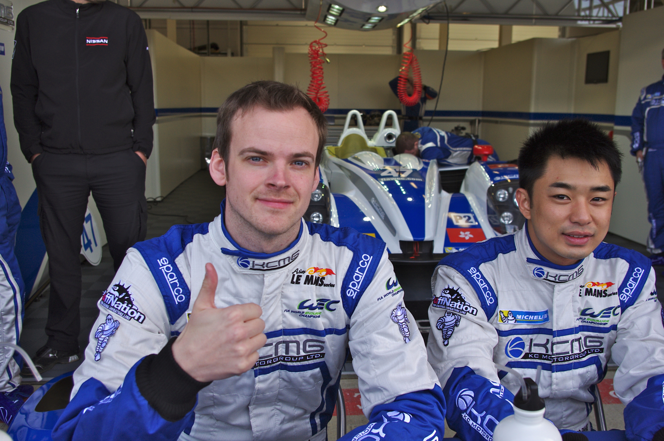 Silverstone 6 Hours 2013 FIA World Endurance Championship (WEC)